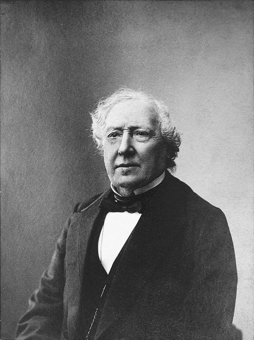 Henri-Louis Roger (1809–1891). Réf. image: anmpx36x0094.